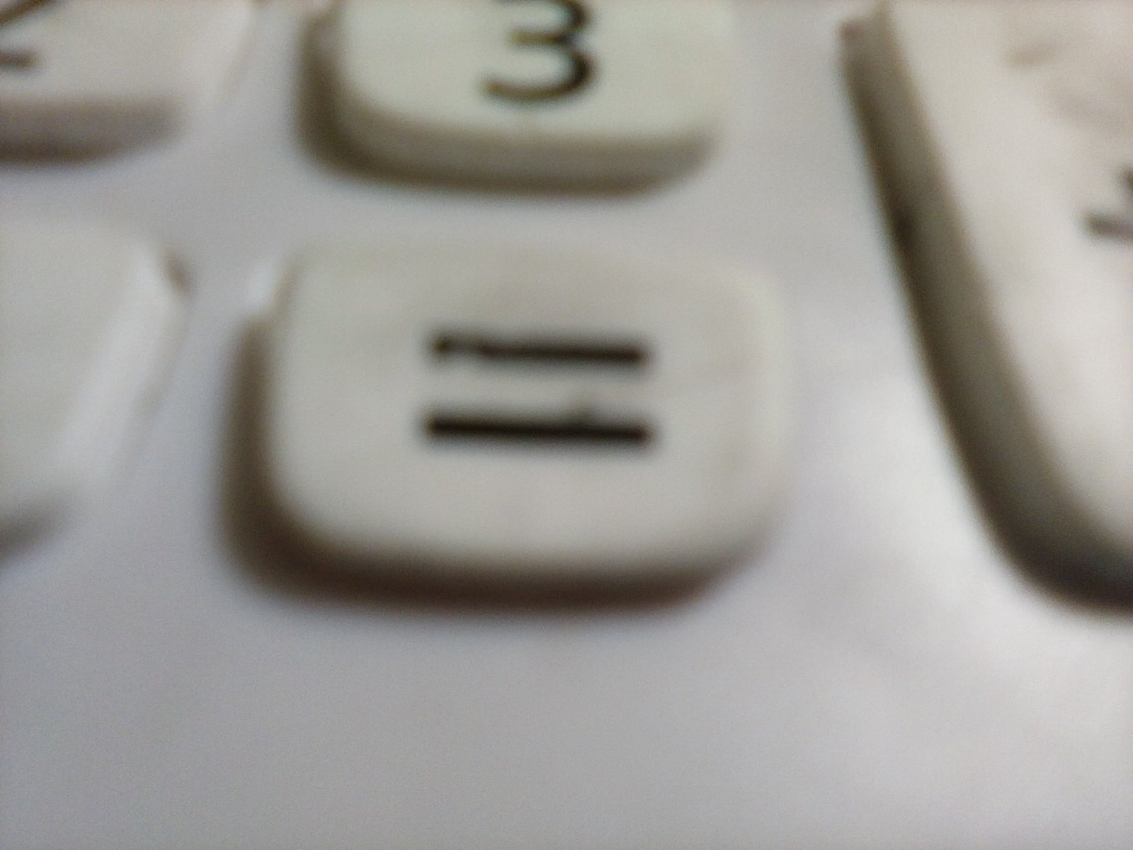 A "=" key in a calculator.